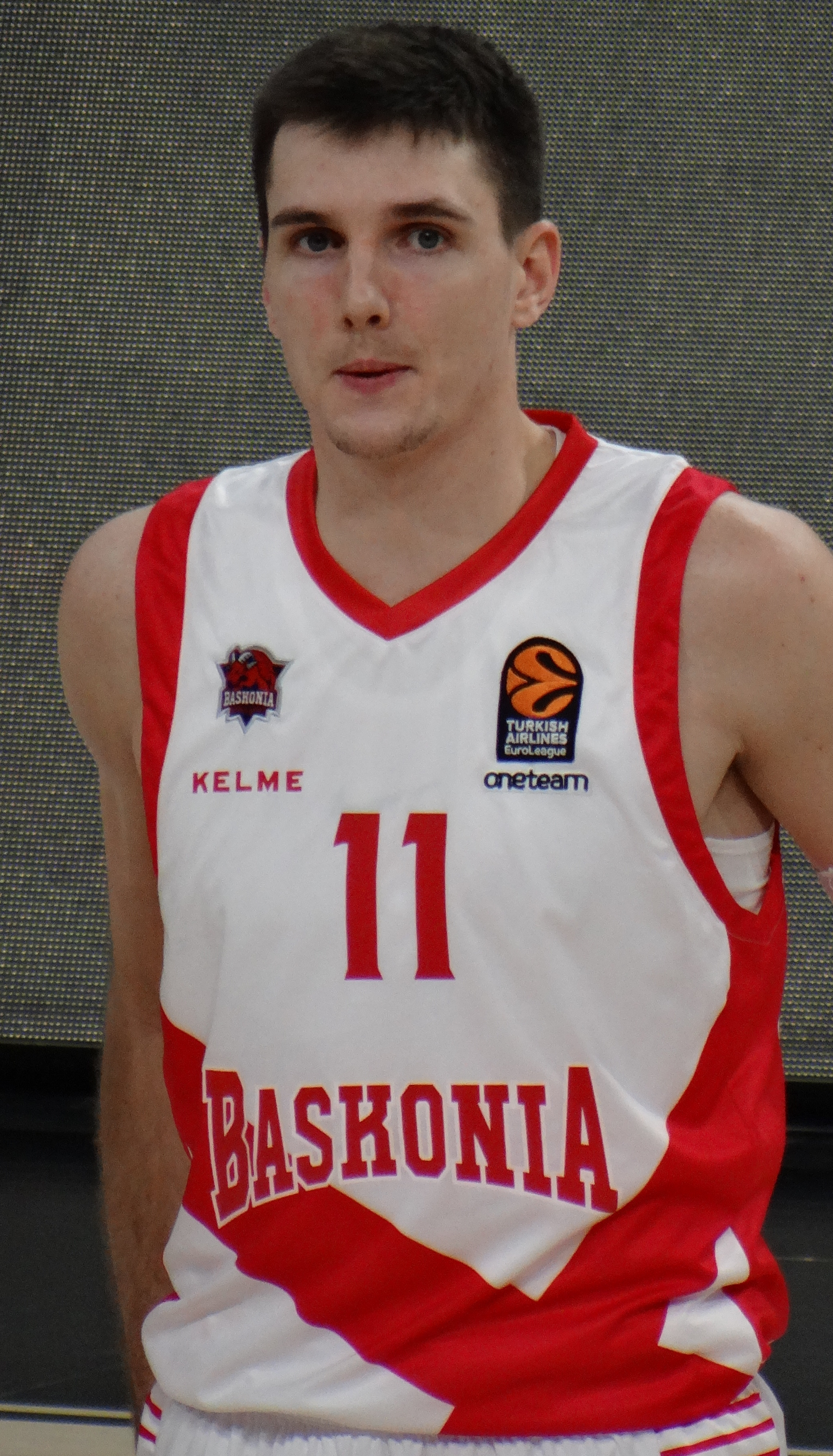 Matt Janning 11 - Saski Baskonia 20171215